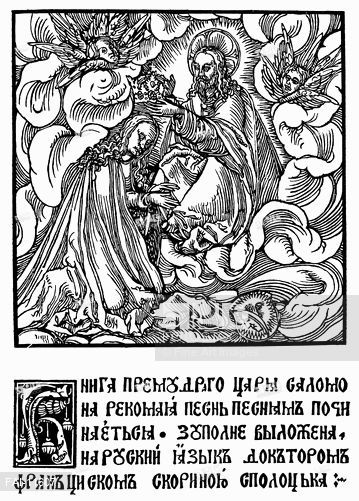 Image from "Song of Songs" of Francysk Skarynaб 1519